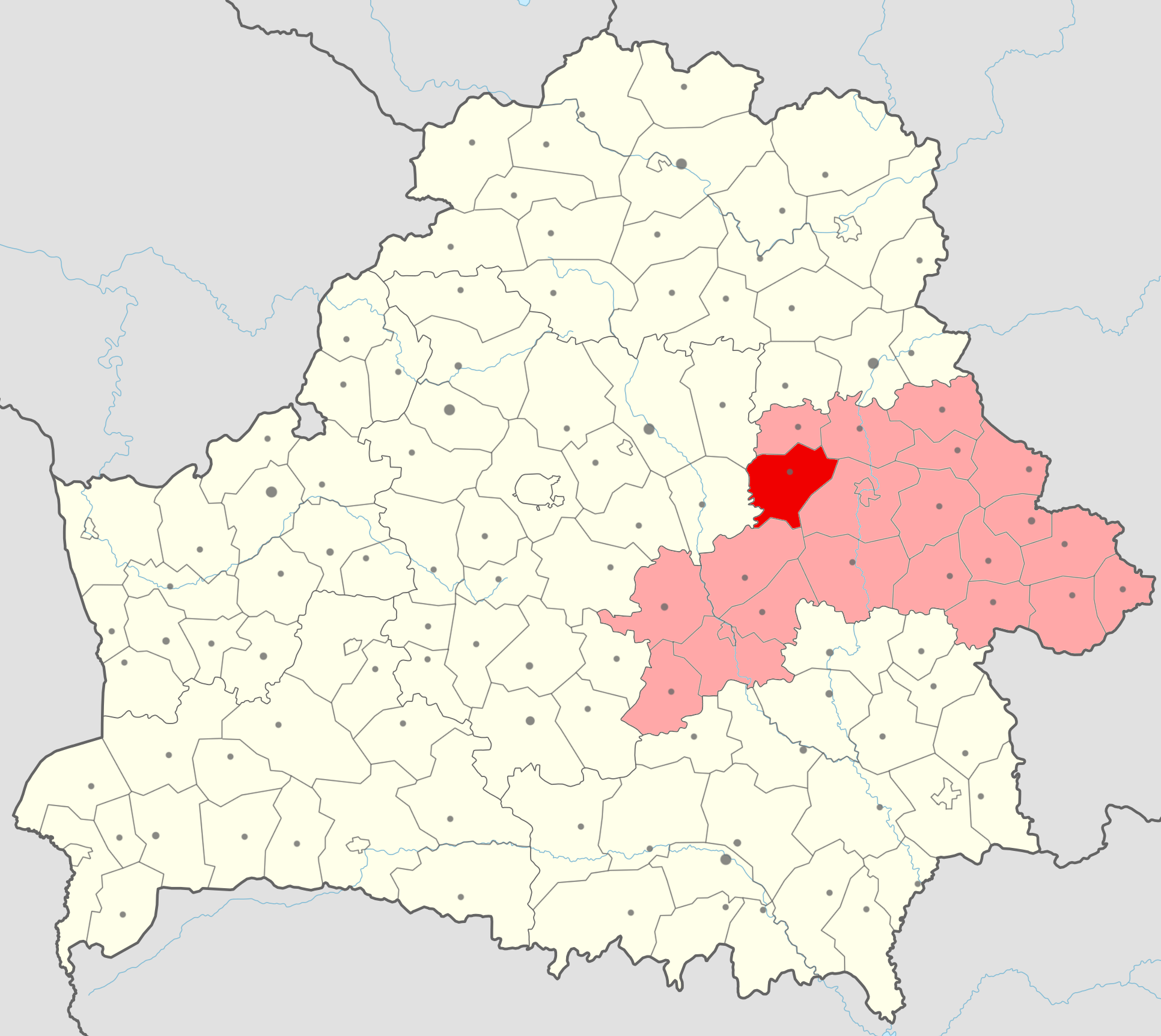 Location of Bialynicki rajon (red) in Mahilioŭskaja voblasć (light red) in Belarus.